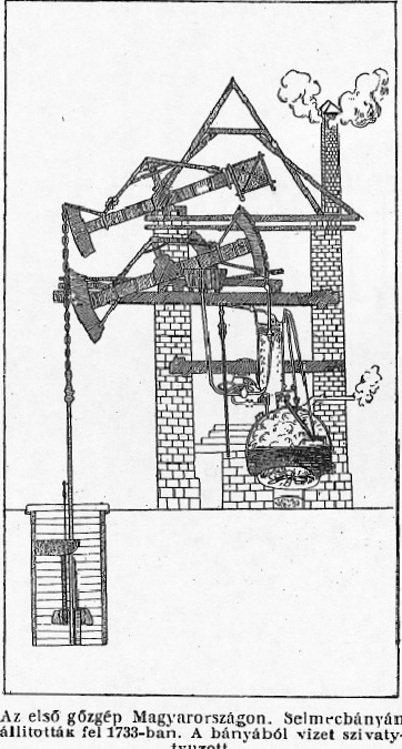 First steam engine in the Kingdom of Hungary,Banská Štiavnica, 1733